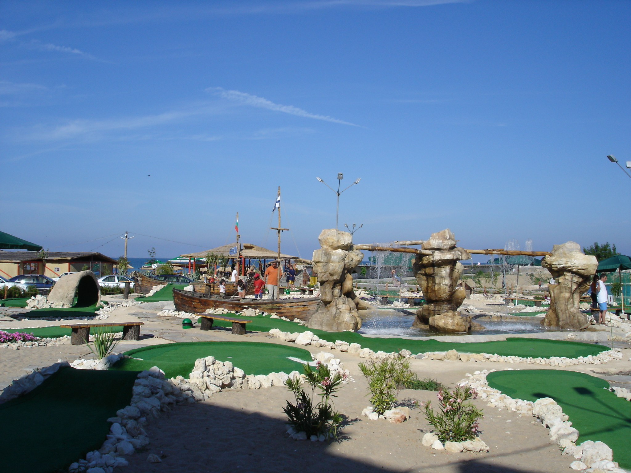 Minigolf Playground in Golden Sands, Varna